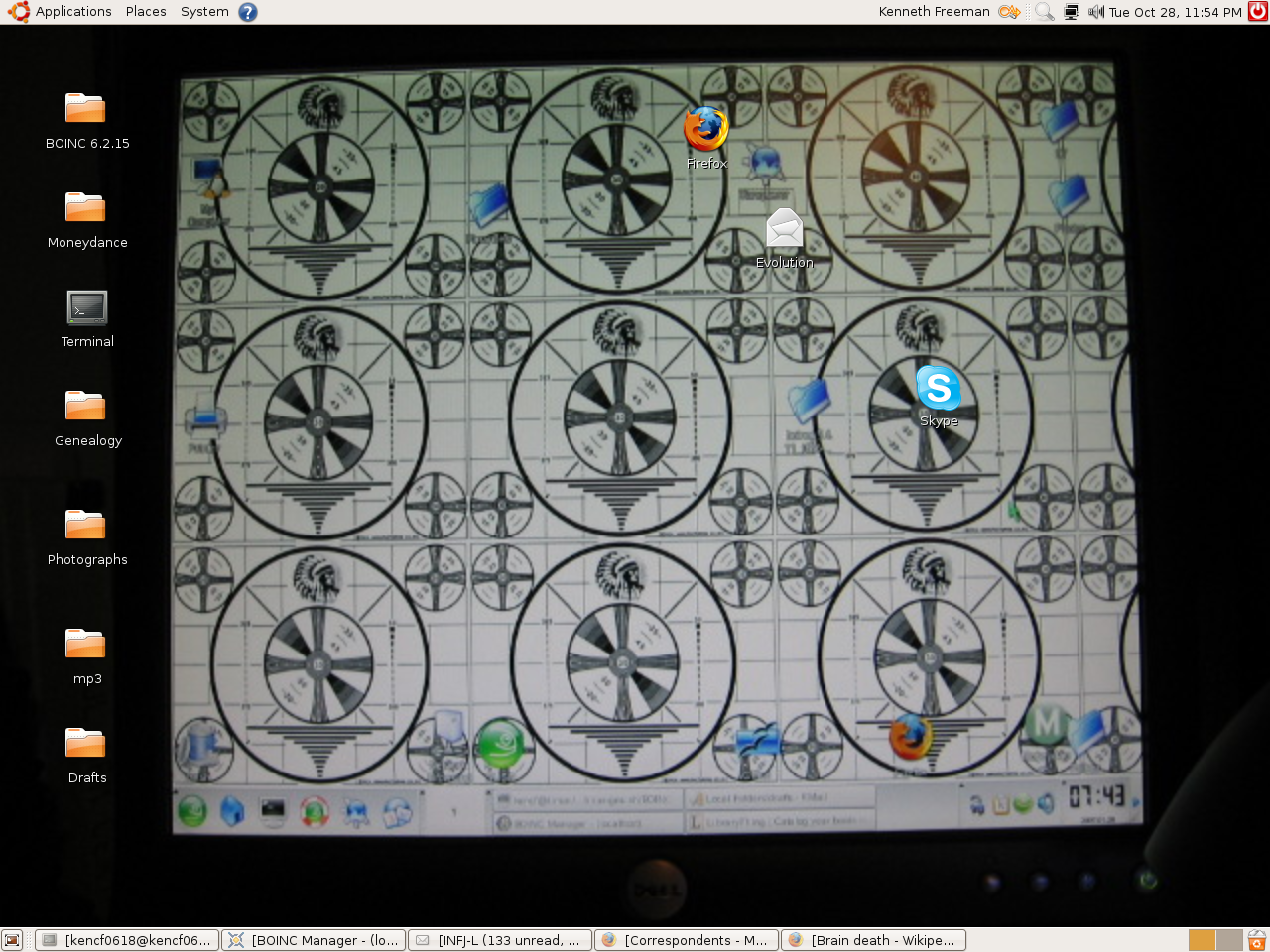 Indian Head Test Card wallpaper on a Linux box.